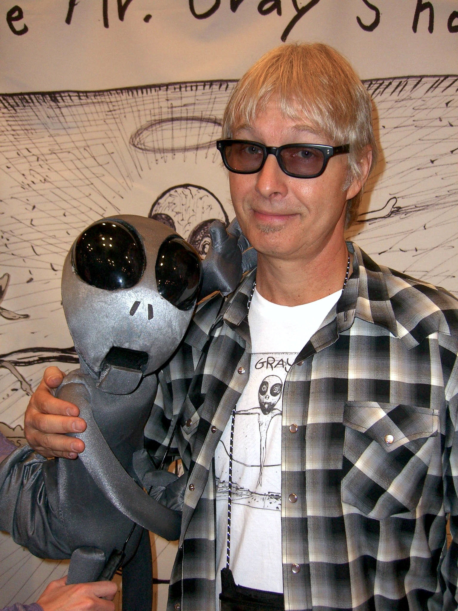 Musician, writer and producer Dusty Wright on Day 3 of the 2012 New York Comic Con, Saturday October 13, 2012 at the Jacob K. Javits Convention Center in Manhattan. This photo was created by Luigi Novi. It is not in the public domain, and use of this file outside of the licensing terms is a copyright violation.